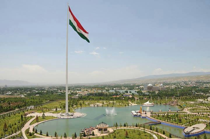 Tricolor flag of Tajikistan,In Rudaki Garden.Тоҷикӣ: Парчами се ранги Тоҷикистон, дар Боғи рудаки.